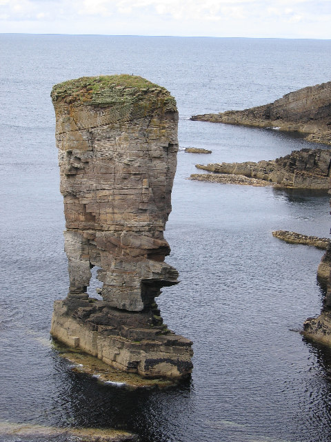 Sea stack near Yesnaby on Orkney mainland. A fine example of a sea stack just south of the Point of Qui Ayre near Yesnaby. Yesnaby is situated on the west coast of the Orkney Mainland